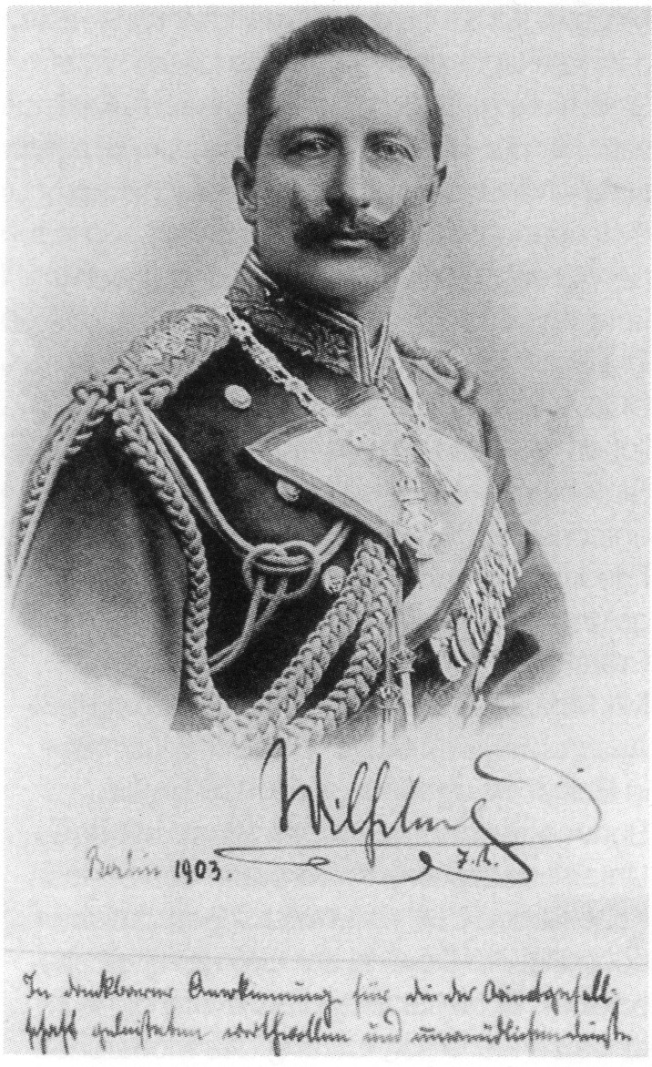 Photo of the German Emperor Wilhelm II. with a personal dedication to James Simon.